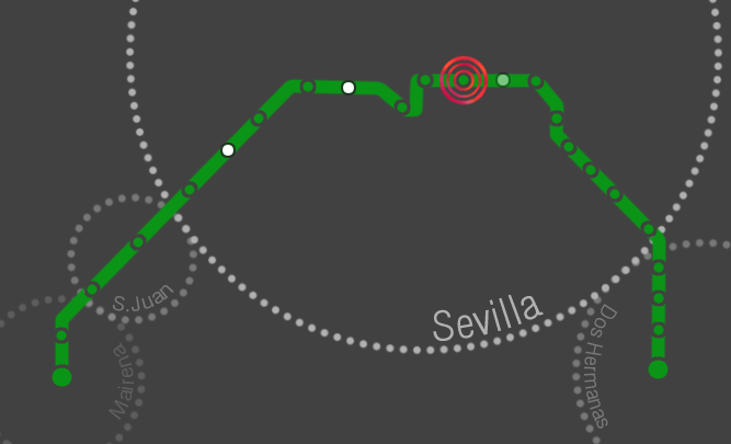 Location